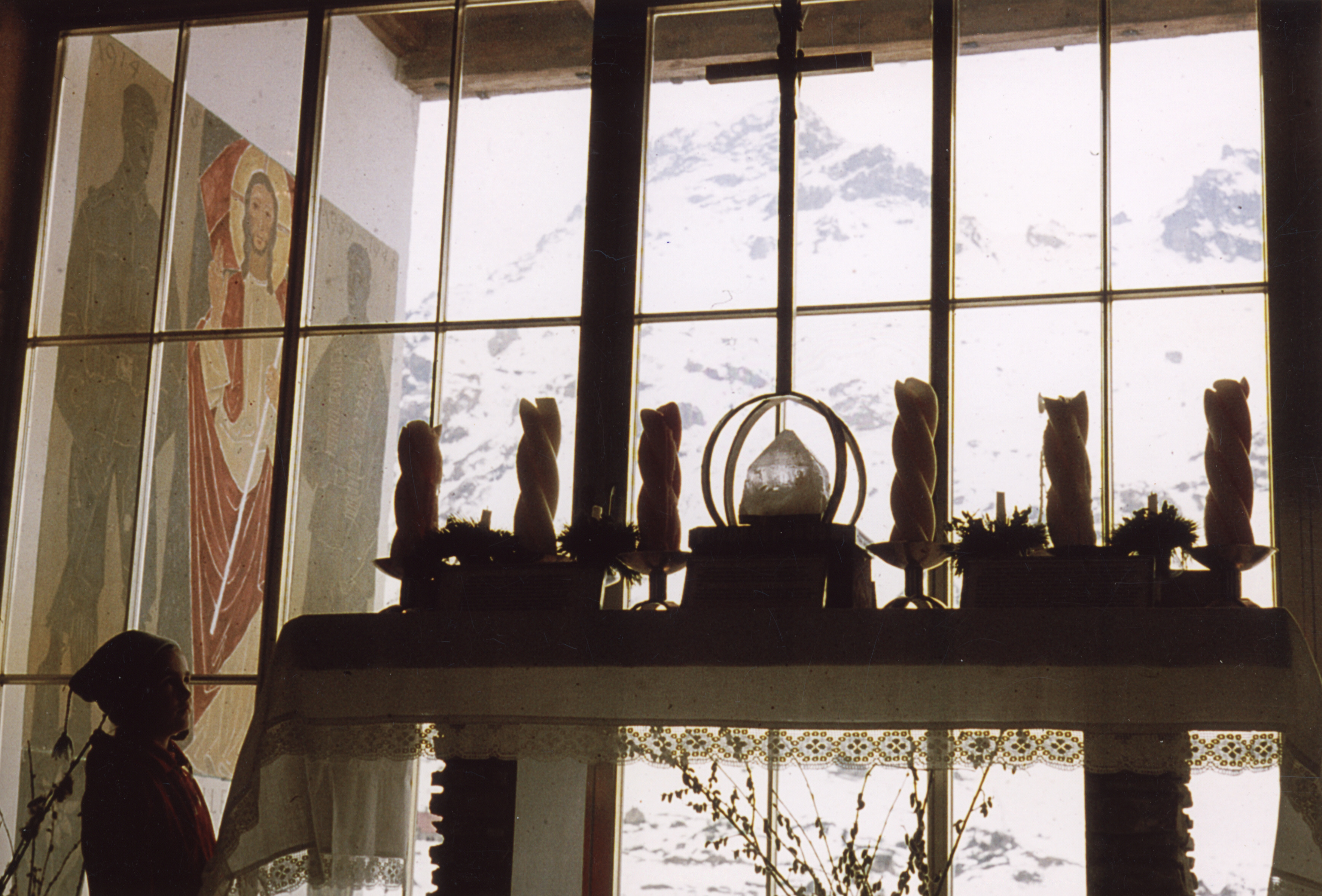 Lizum Christkönigskapelle This media shows the remarkable cultural object in the Austrian state of Tyrol listed by the Tyrolean Art Cadastre with the ID 59124. (on tirisMaps, on tirisdienste.at, pdf, more images on Commons)